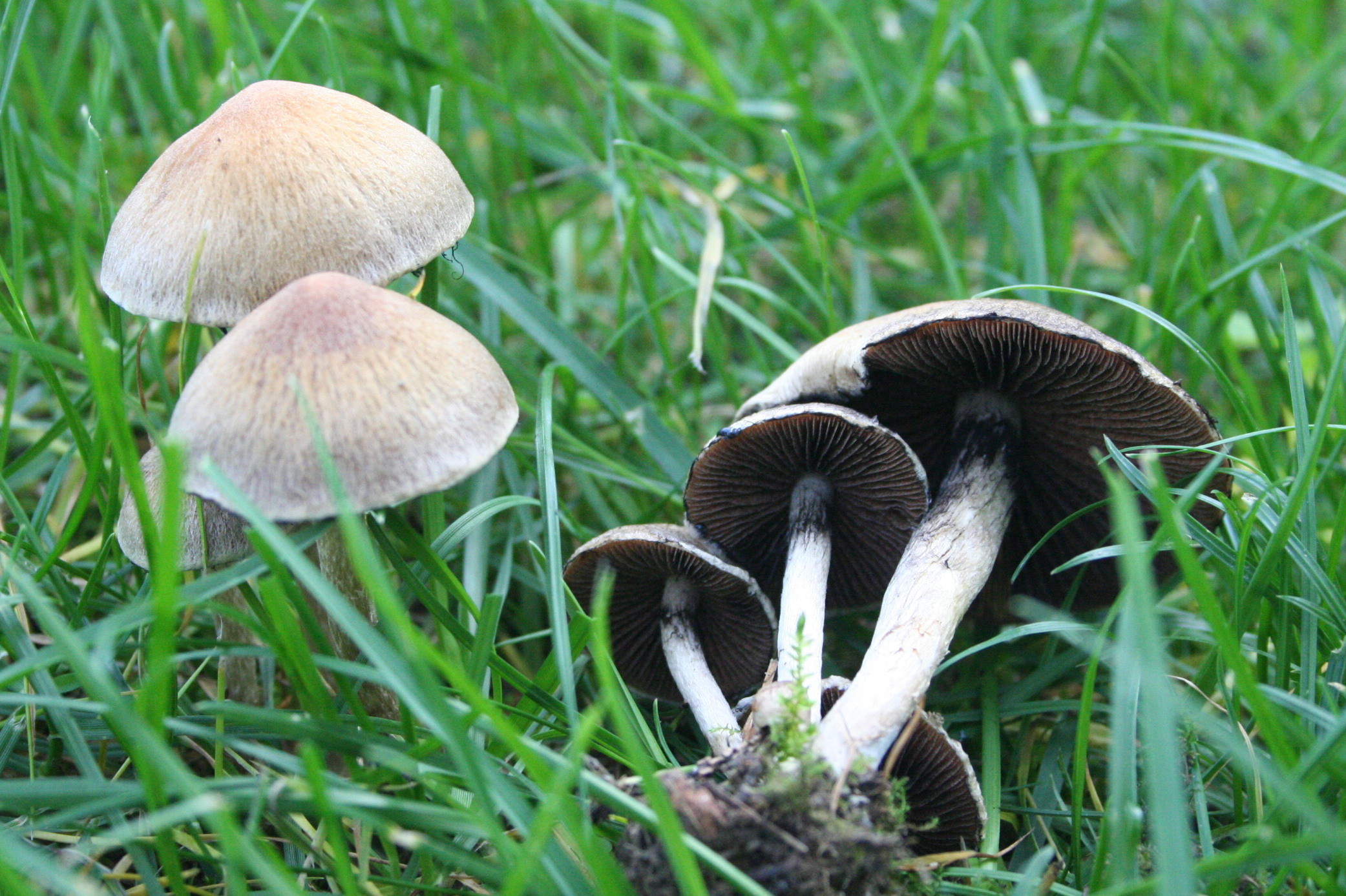 Psathyrella lacrymabunda(= Lacrymaria velutina)in a park near Paris, France.